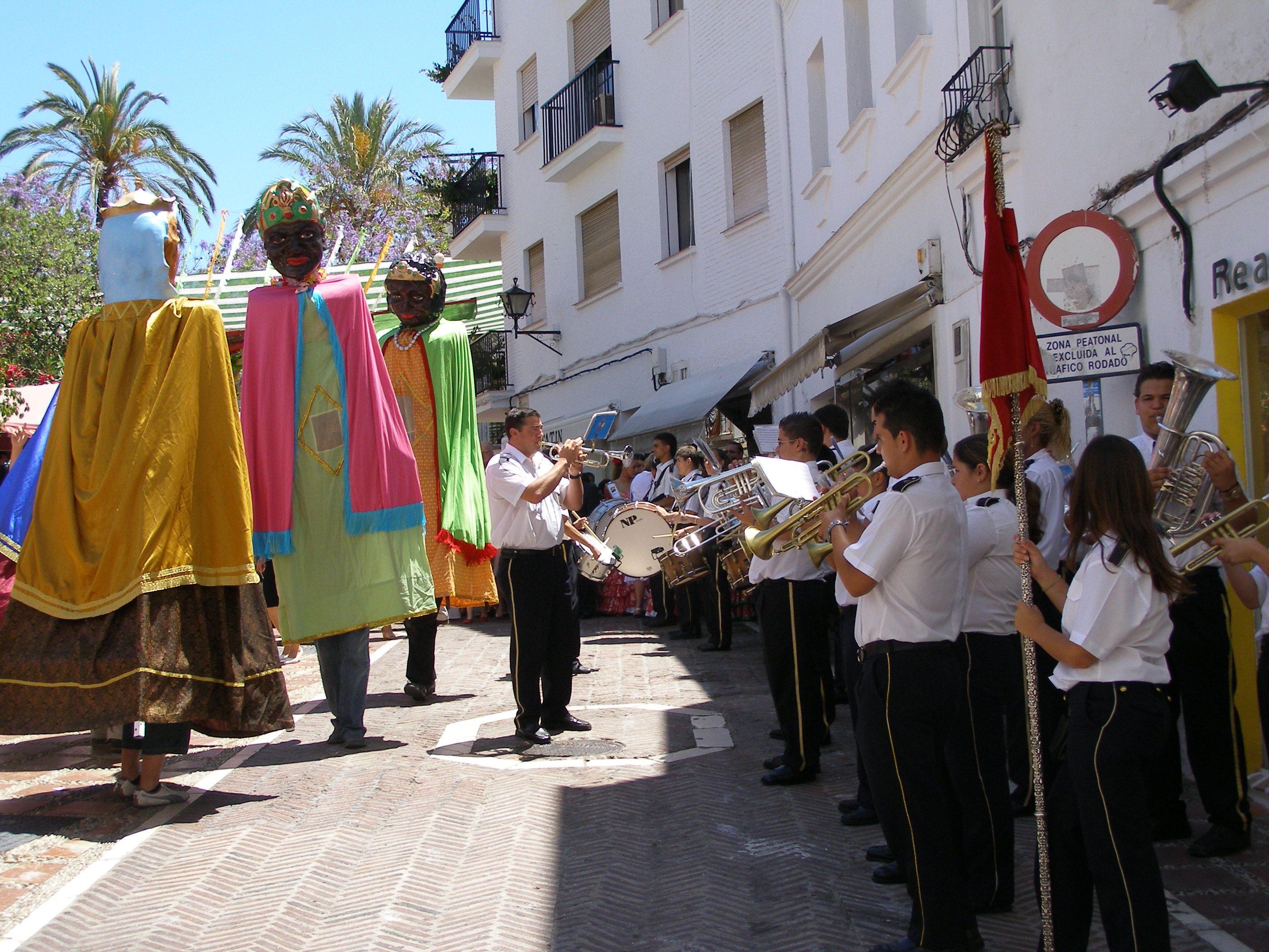 Feria de San Bernabé in Marbella, Spain